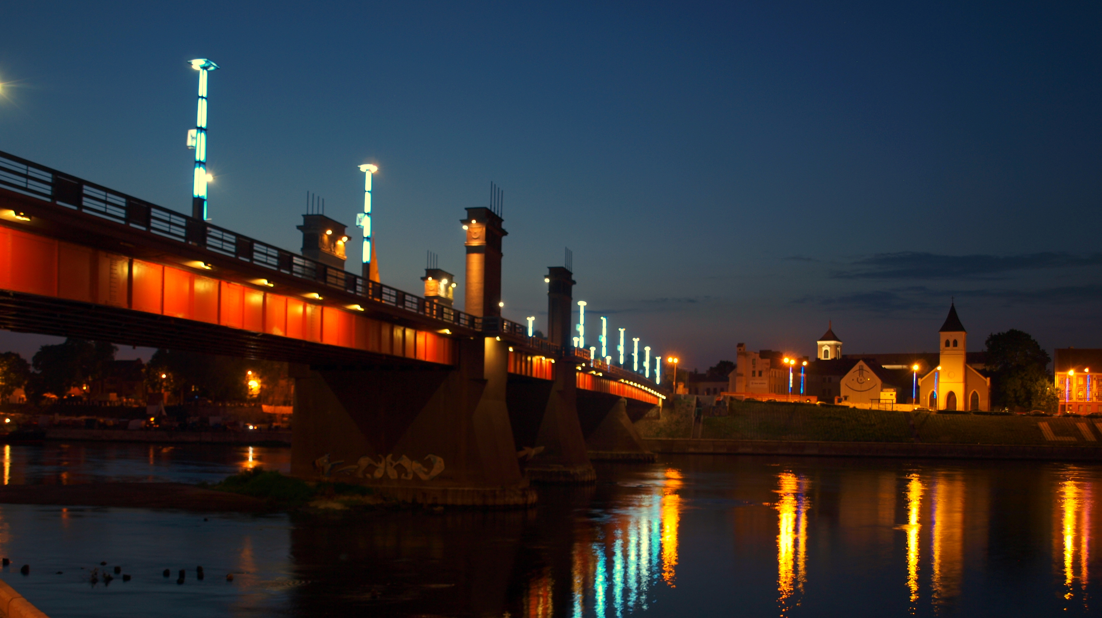 One weekend in May, 2011 was big in Kaunas, Lithuania - the city celebrated Hanseatic Days.